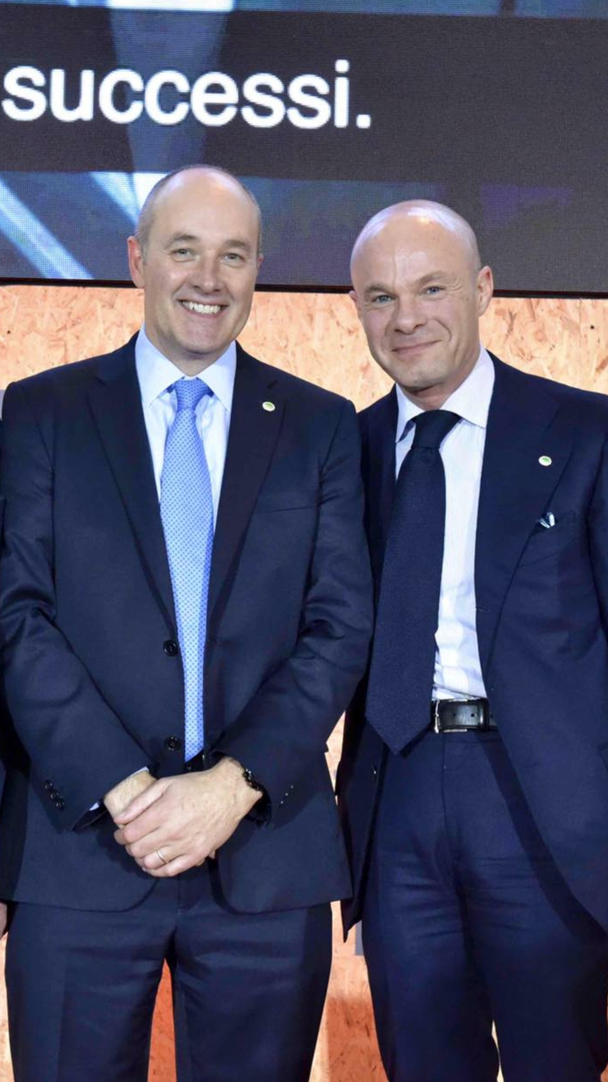 Alessio De Sio - Alistair Dormer Global CEO Hitachi Rail